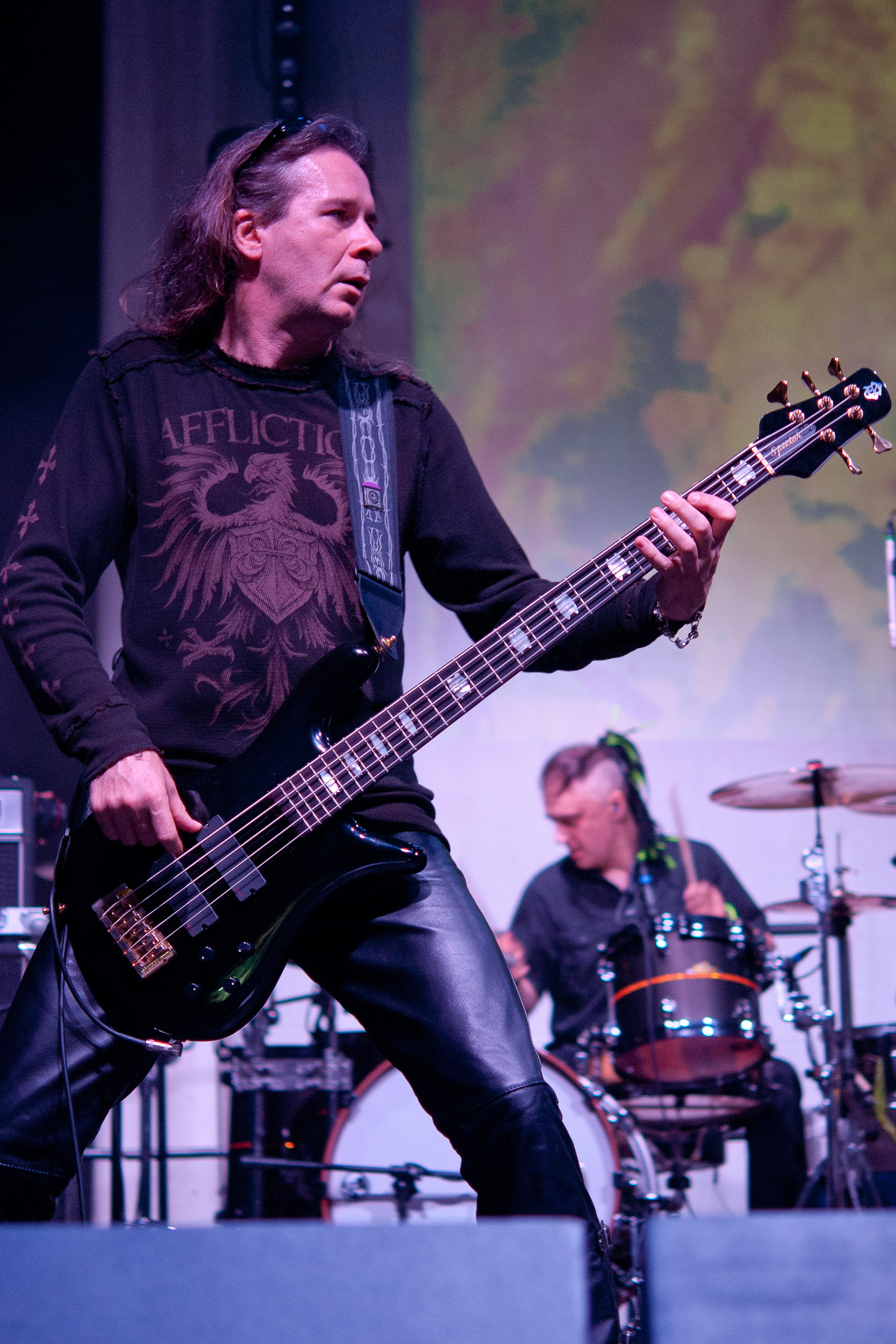 This photo was made in cooperation with CASTLE PARTY PRODUCTIONS in Bolków (webpage) Closterkeller podczas Castle Party 2012